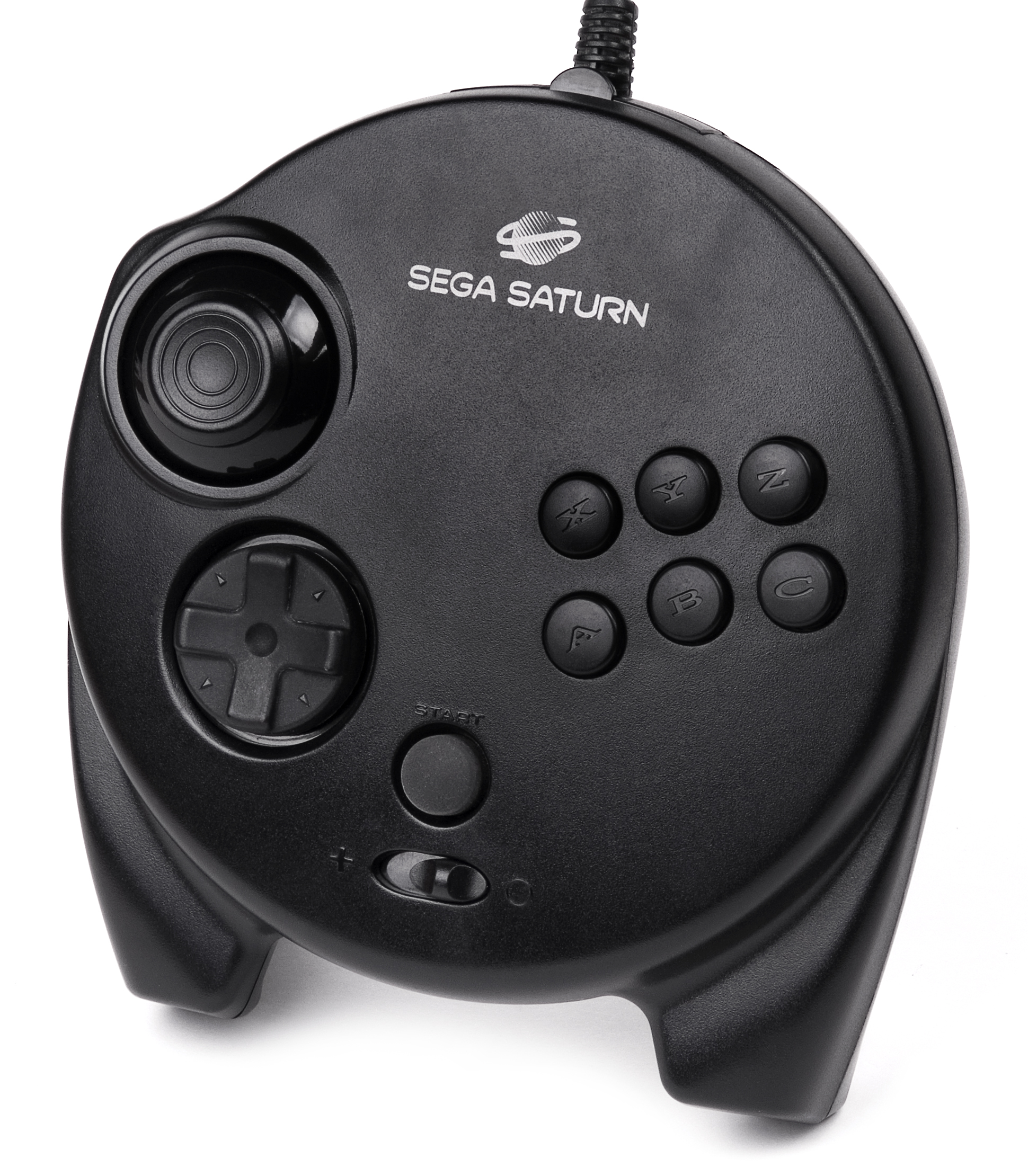 The Sega Saturn 3D controller, that was packed-in with copies of NiGHTS INTO DREAMS.